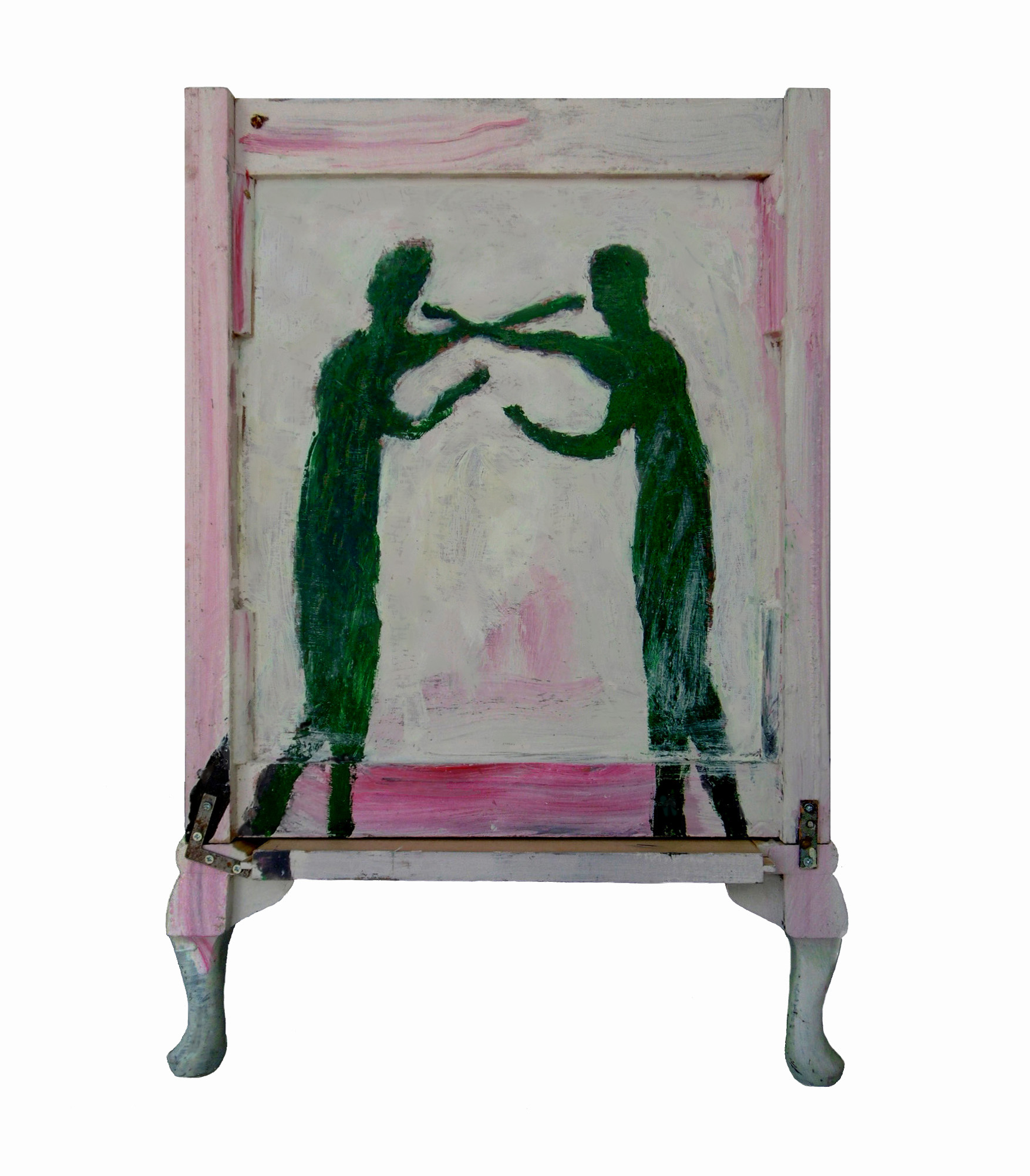 Paint on reassembled furniture parts with screws and metal brackets 75 x 50 cm. In the 1990's Andrew Litten was 'working with everything from gouache and oil paint to hair and screws' (source from Milwaukee Art Museum text by Andera, Margaret, and Lisa Stone)